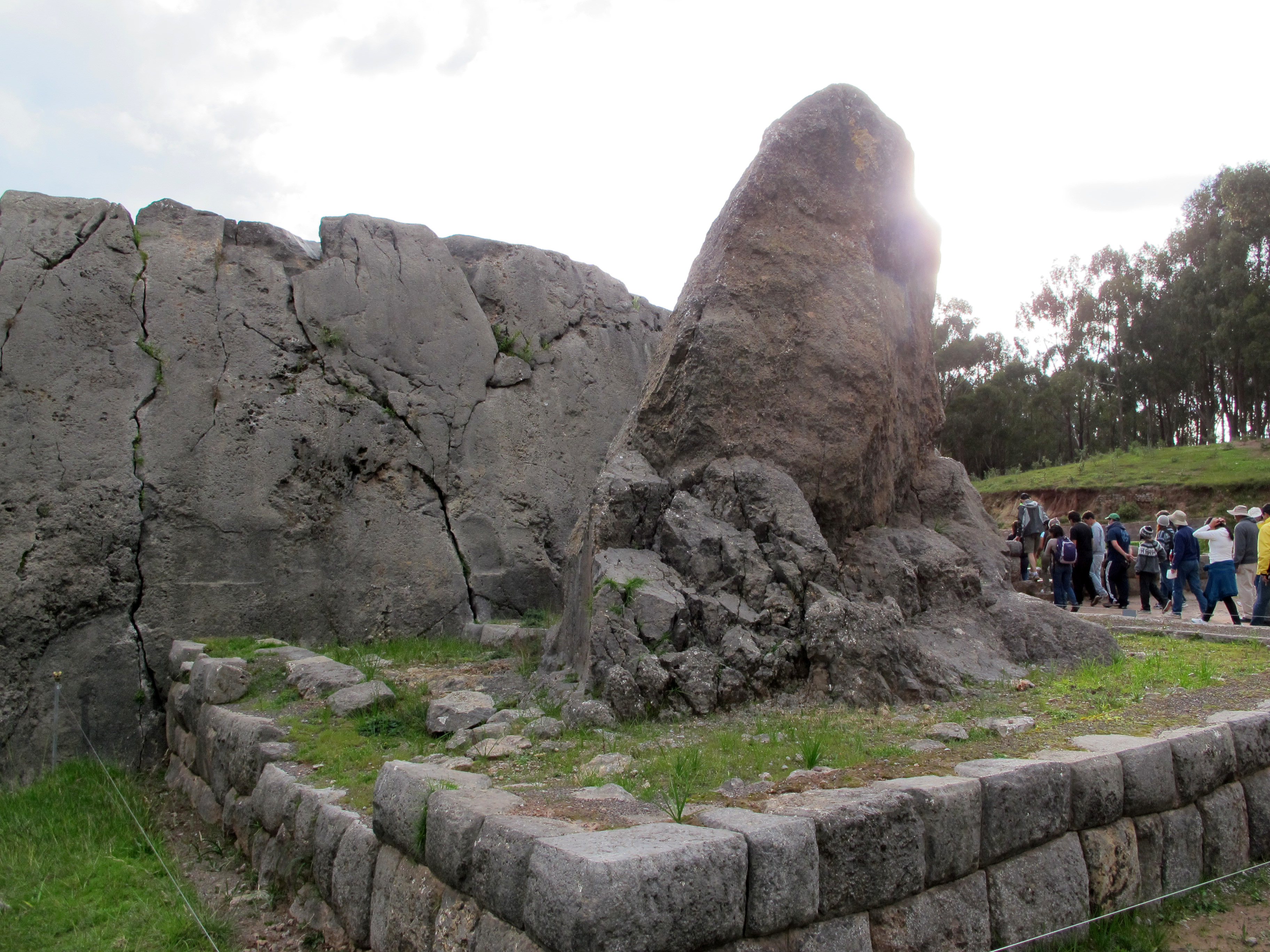 Q'enqo in the outskirts of Cusco in Peru